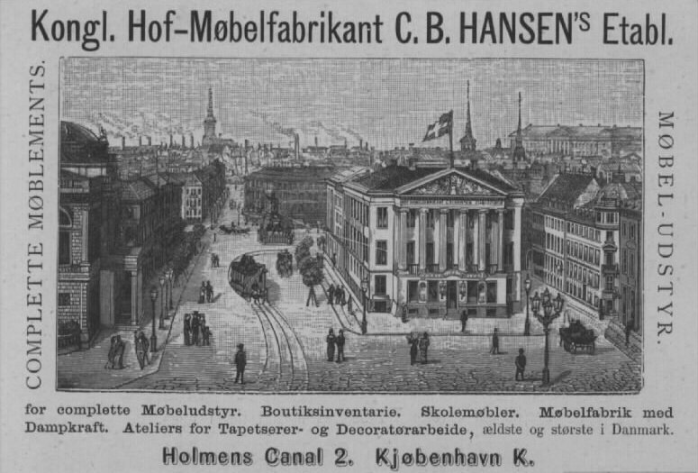 C.B. Hansens Etablissement, Danish furniture factory, est. 1830